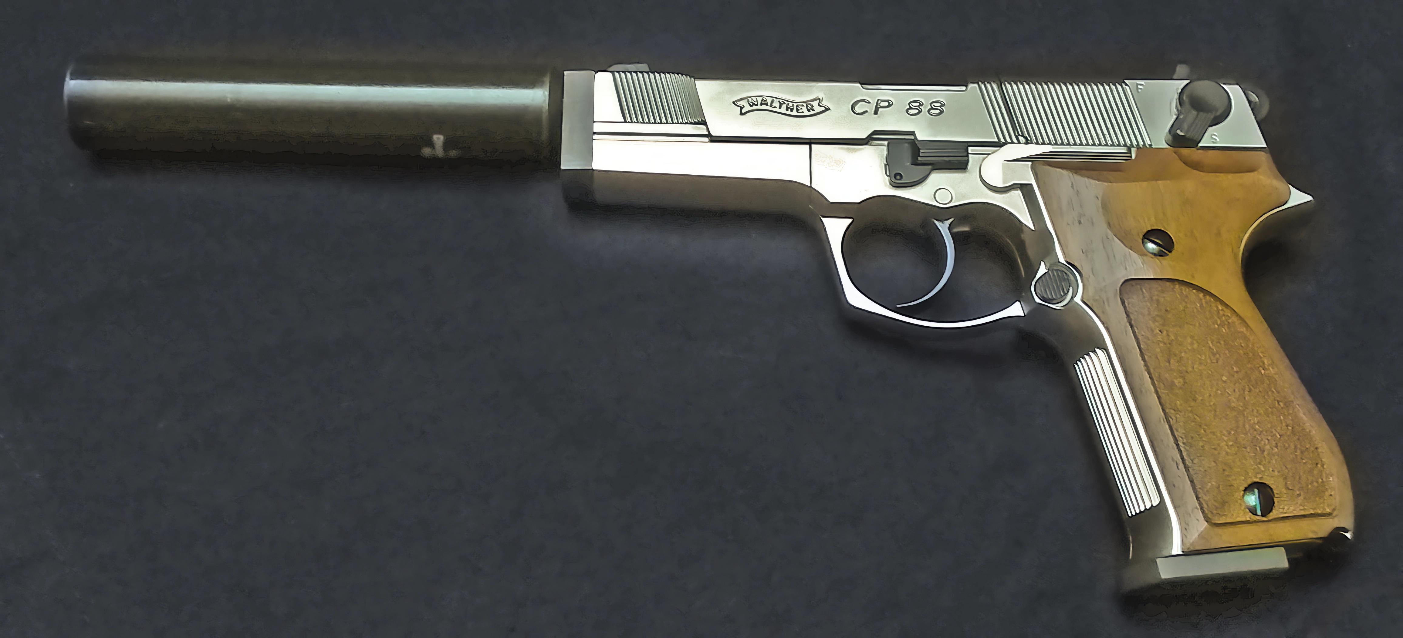 Co2-Pistol "Walther CP88" with adapted silencer